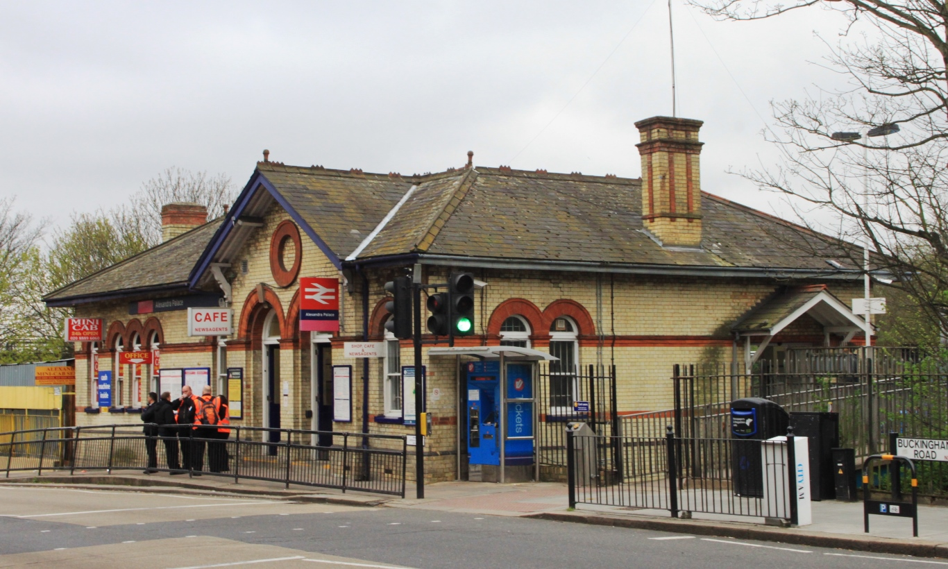 The main entrance to Alexandra Palace station is at street level on the east side of the line. Passengers reach the platforms below from a footbridge but this can also be accessed from the west side of the line which is convenient for people going to and from the Alexandra Palace exhibition halls on the hill above the station.